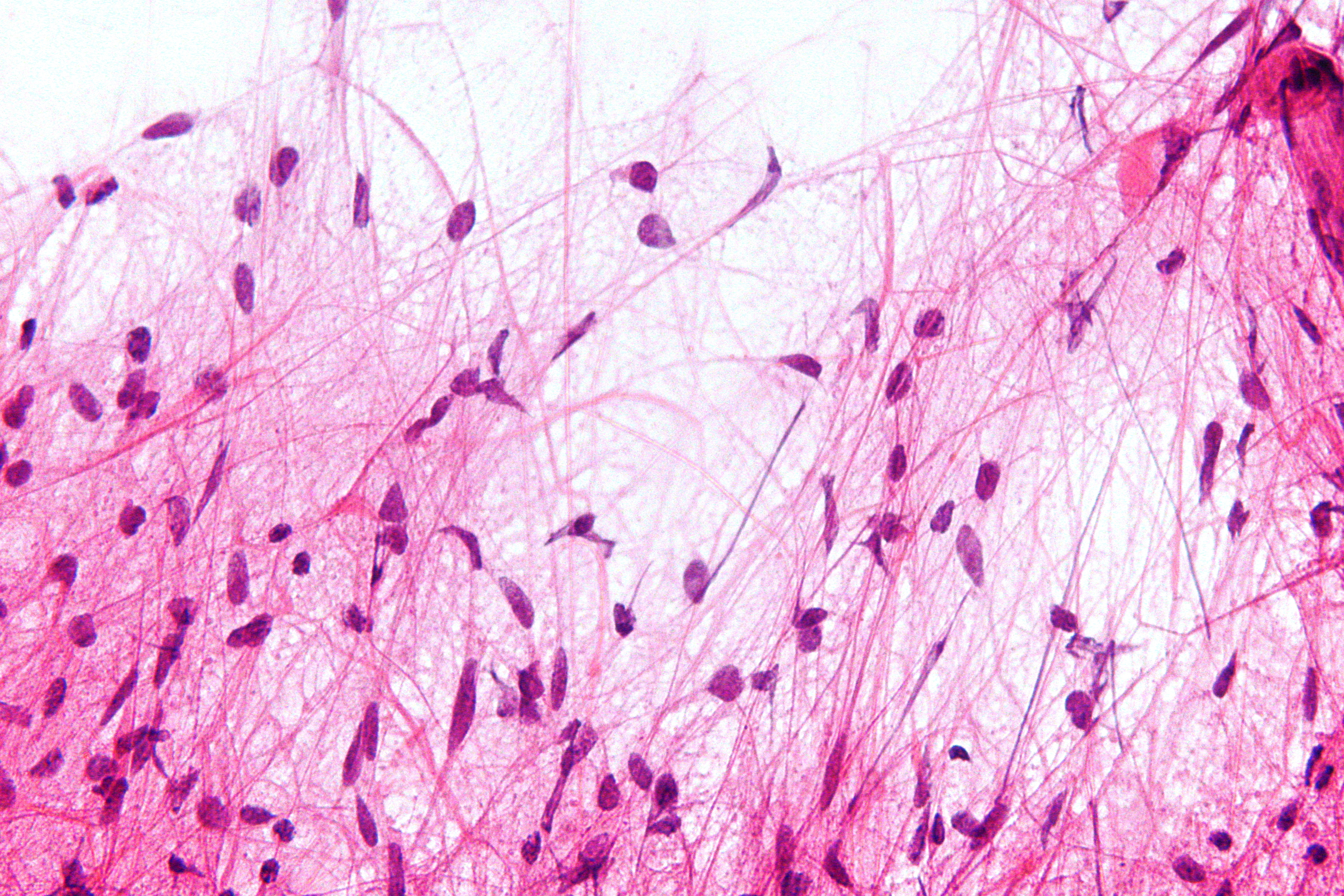 Very high magnification micrograph of a pilocytic astrocytoma, showing the characteristic bipolar cells with long hair-like processes. Smear. H&E stain. Related images Very high mag. High mag.